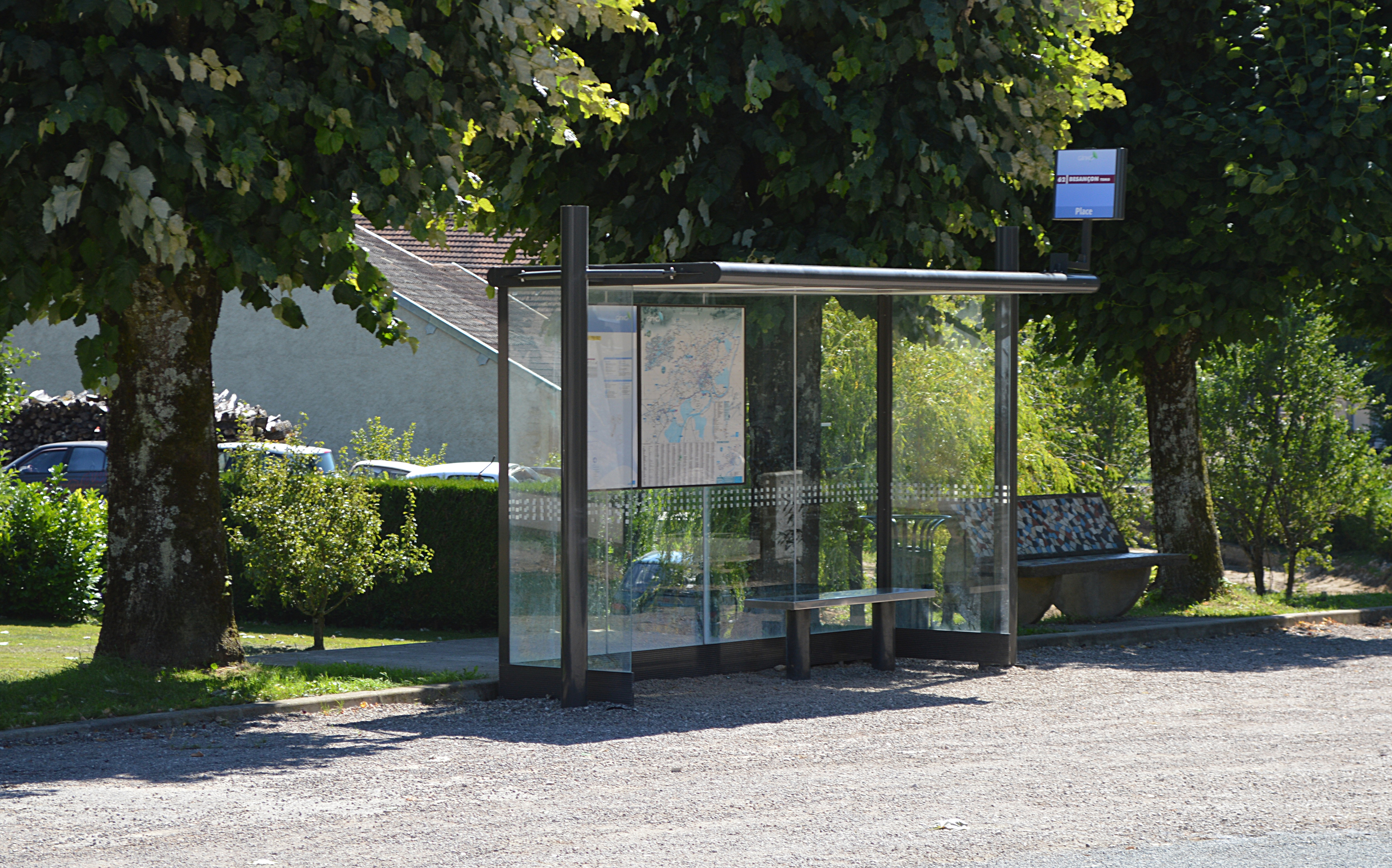 Bus stop on the main square of the french village of Noironte, in the Doubs departement.